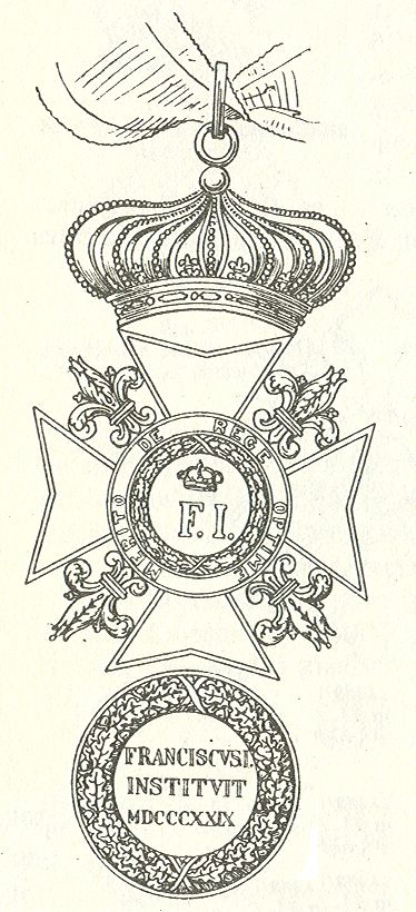 Drawing of the Order of Francis I of the Two Sicilies. Instituted 1829; drawn 1893.